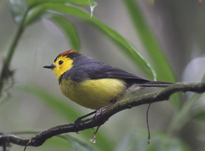 A collared redstart.